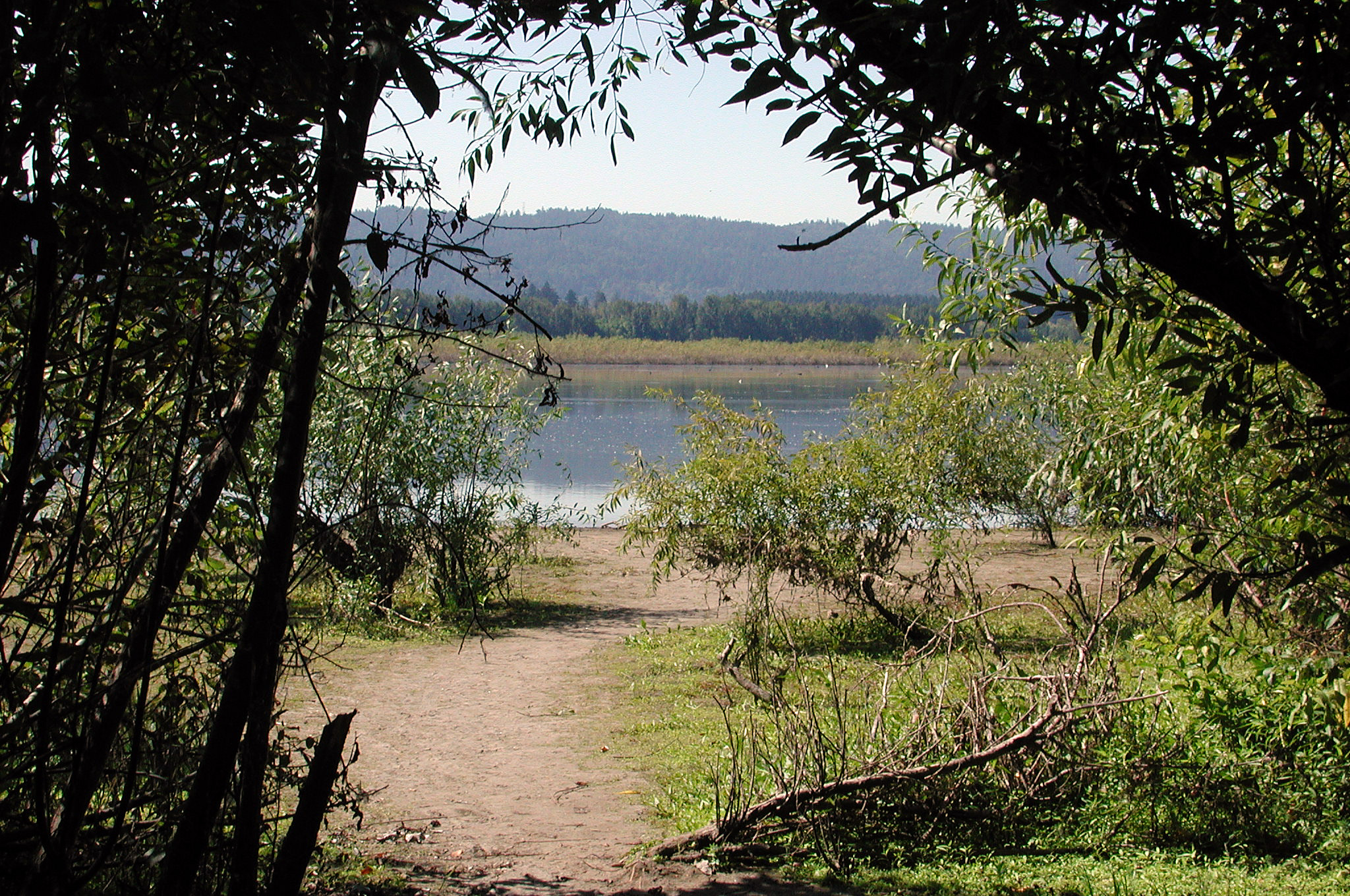 Smith Lake, part of the Columbia Slough watershed in Portland, Oregon. The unpaved path leads from Marine Drive to the water. The view is from the north side of the lake looking roughly southwest. In the distance are the Tualatin Mountains (West Hills).